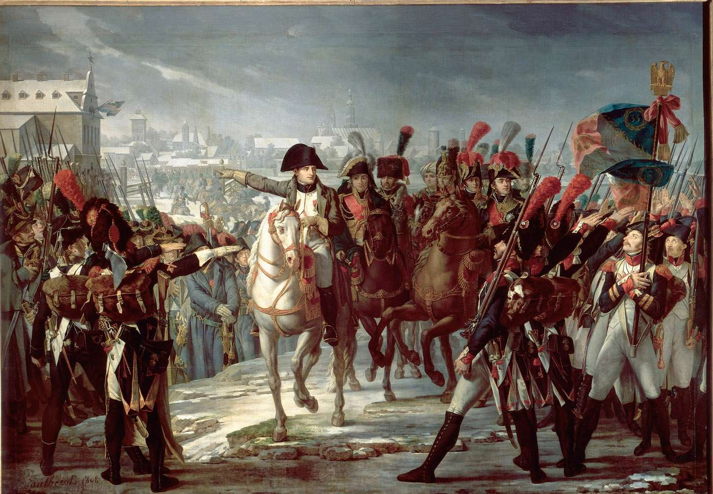 Napoleon ordering the II Corps into action on 12 october 1805